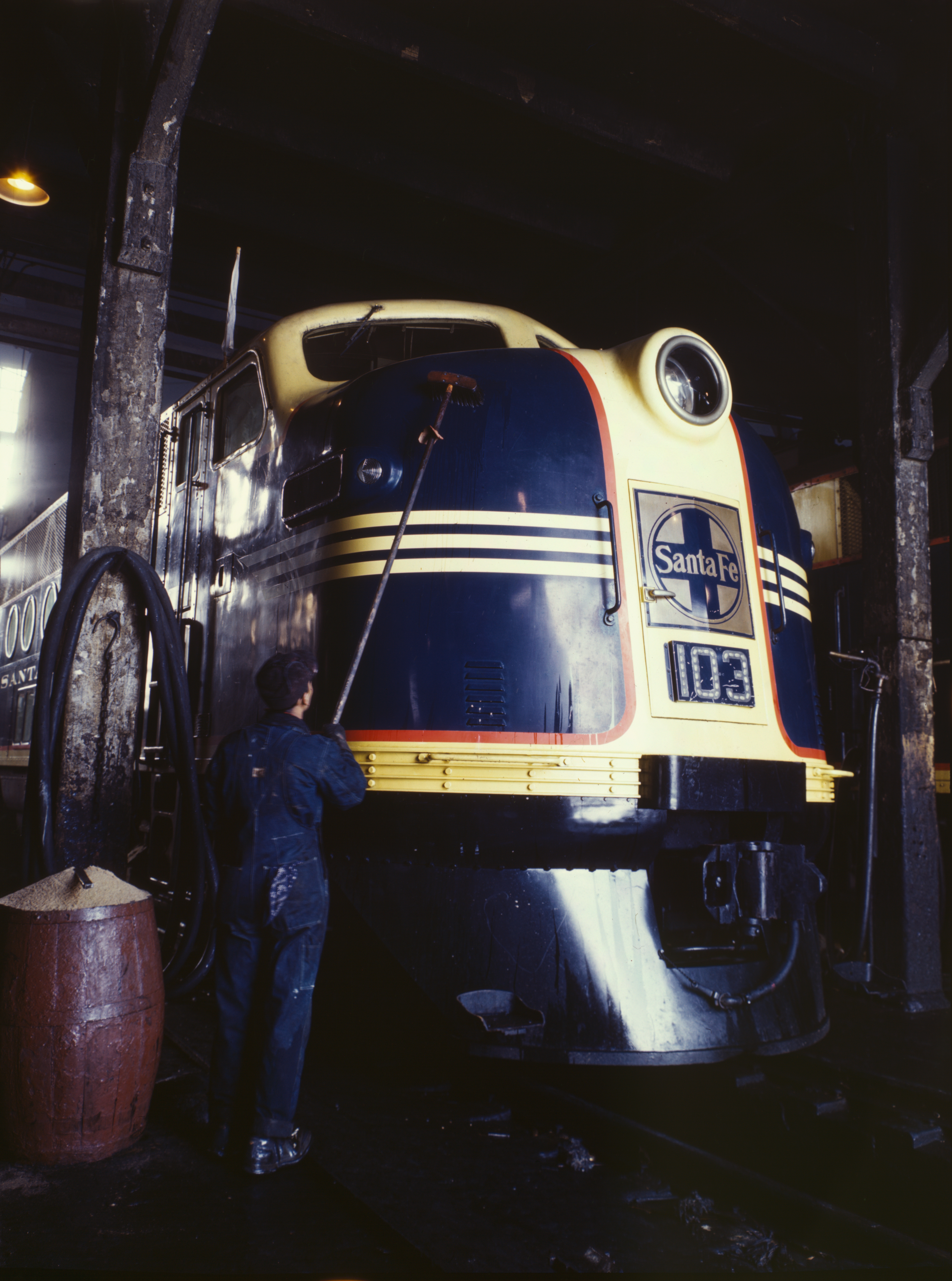 Washing one of the Santa Fe R.R. 5,400 horse power EMD FT diesel freight locomotives in the roundhouse, Argentine, Kansas. Argentine yard is at Kansas City, Kansas